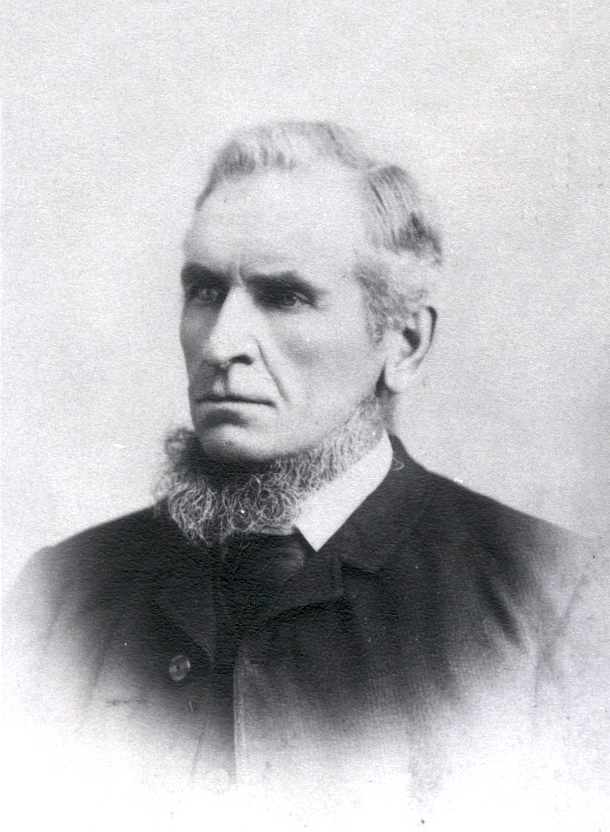 John Brown, reeve of Richmond Hill, Ontario